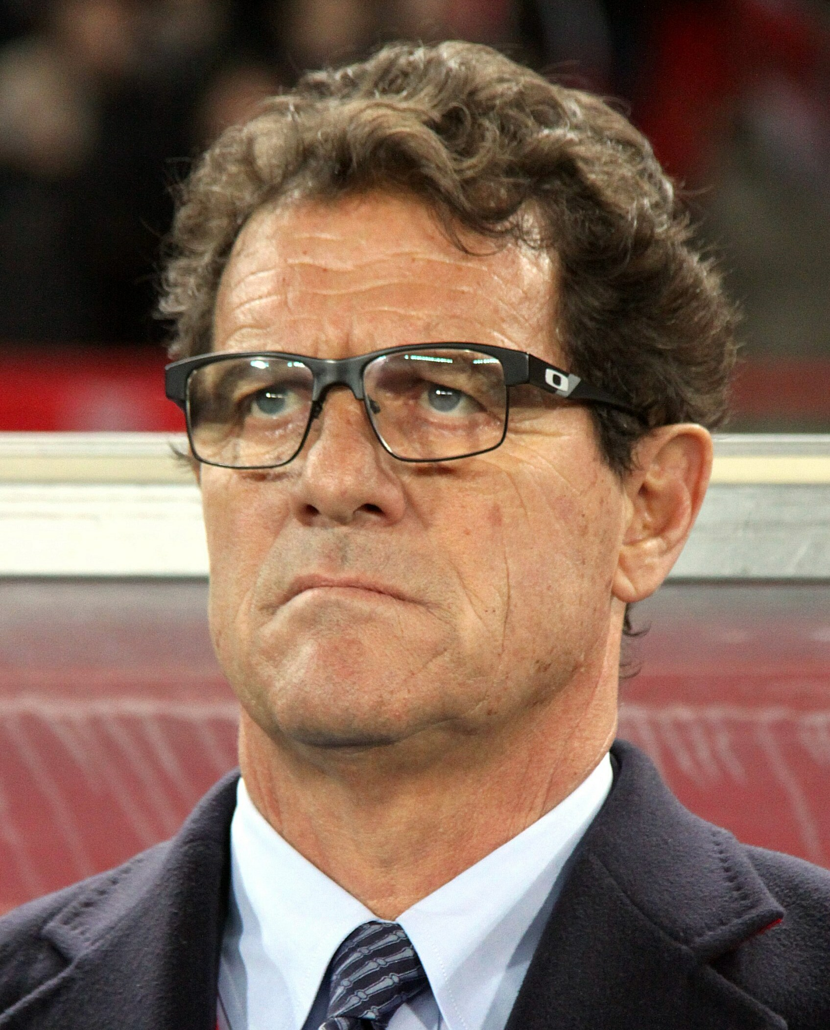 UEFA Euro 2016 qualifying: Austria vs. Russia (1:0 / 0:0) at 2014-11-15 in the Ernst-Happel-Stadion in Vienna. – The photo shows the manager of the Russian team Fabio Capello.